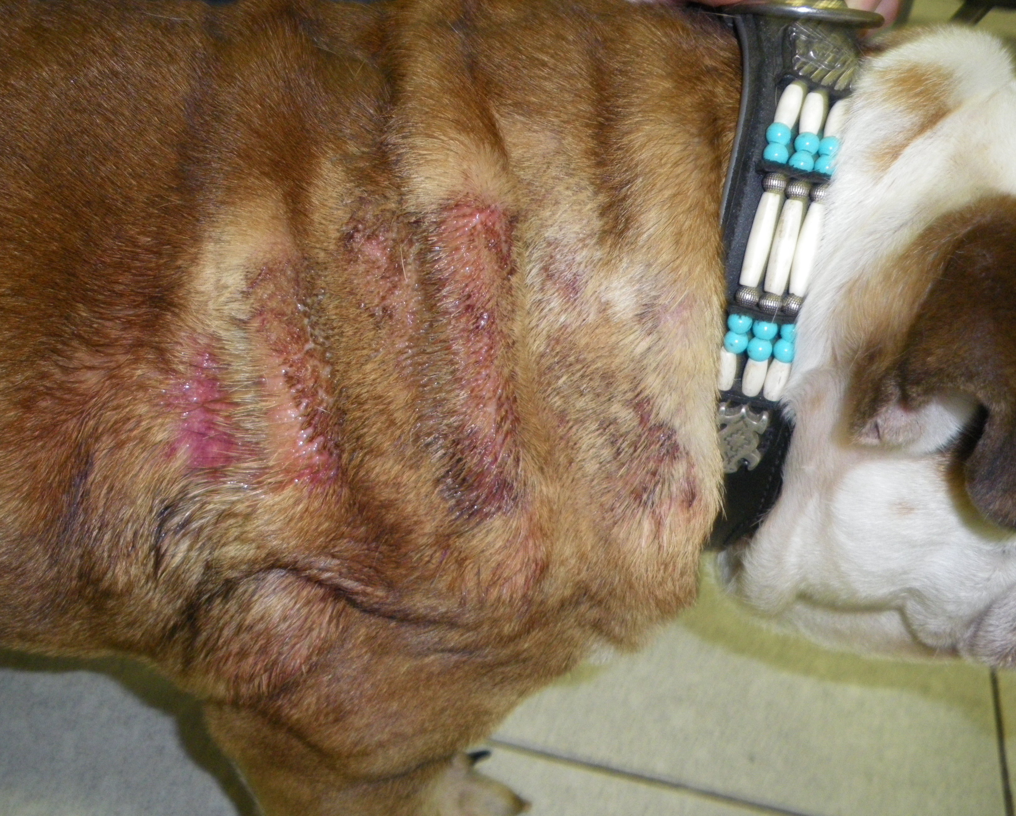 Hot Spot in an English buldog